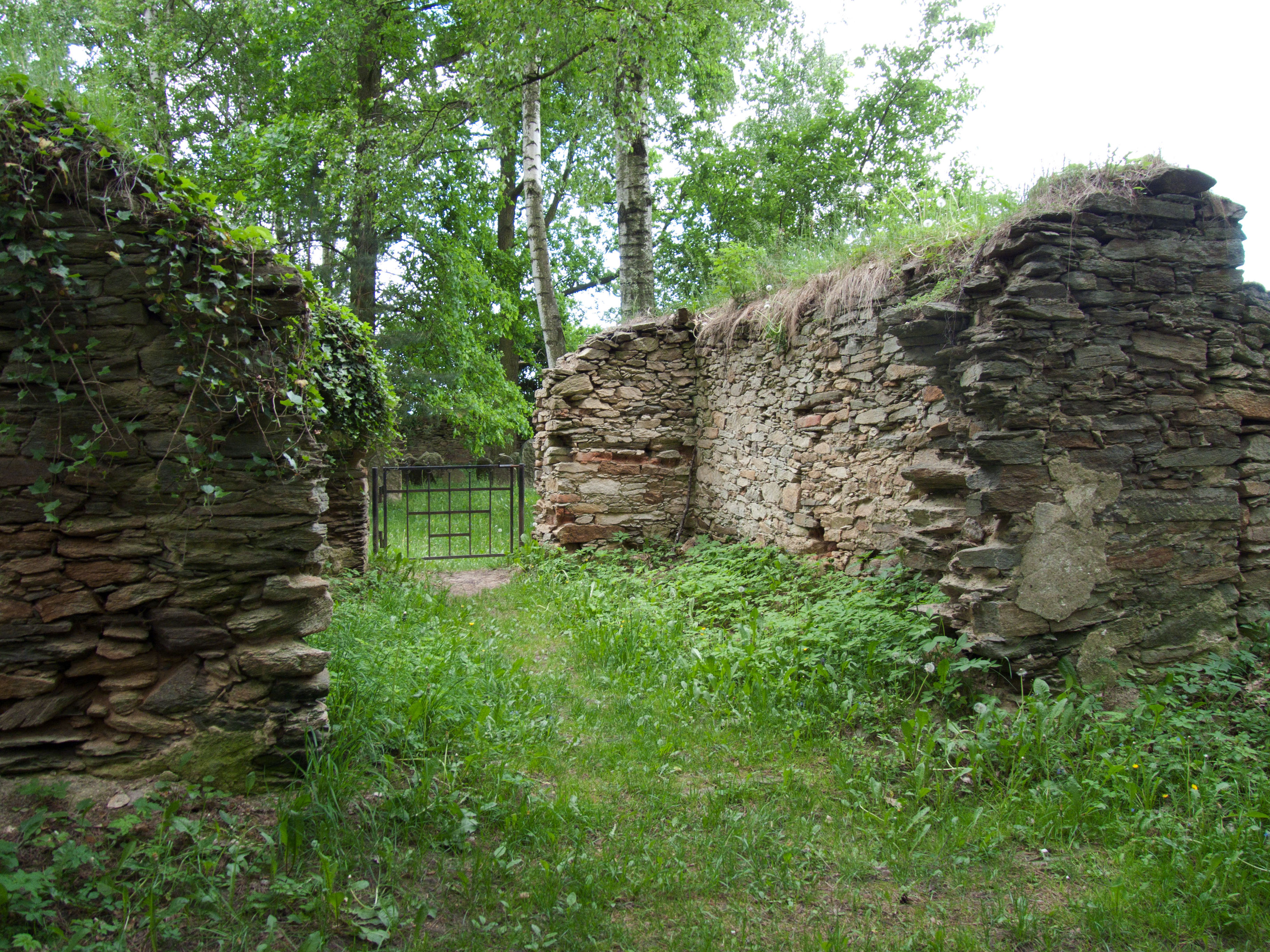 Gate to the Jewish cemetery by the village of Myslkovice, Tábor District, Czech Republic.